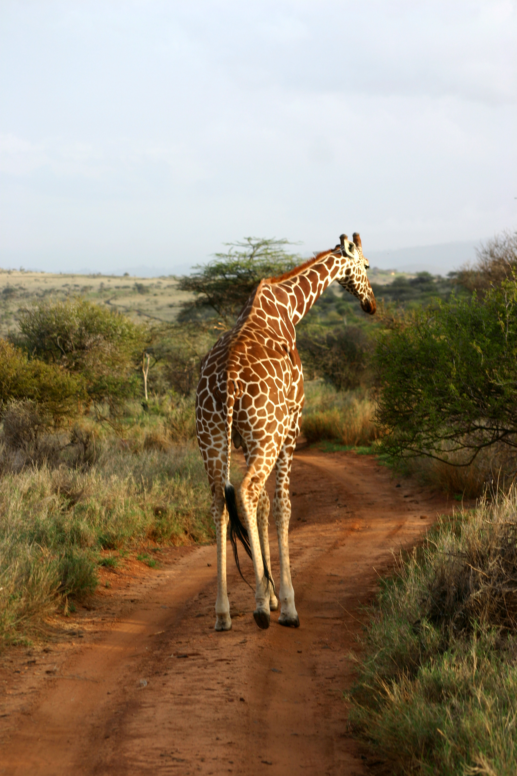 Giraffe (Giraffa camelopardalis) crossing in Lewa, Kenya. Taken on March 5, 2006.giraffe crossing